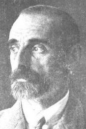 Francesc Cambó in 1921.